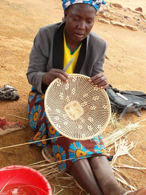 Zimbabwean crafter working on a decorative wall basket courtsy of the National Handicrafts Center Harare Zmbaber This is an image of Cultural Fashion or Adornment from Zimbabwe